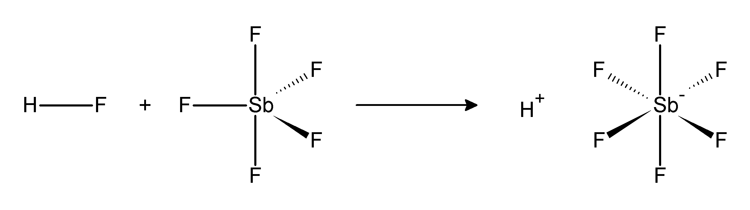 Reaction of hydrogen fluoride with antimony pentafluoride to give fluoroantimonic acid